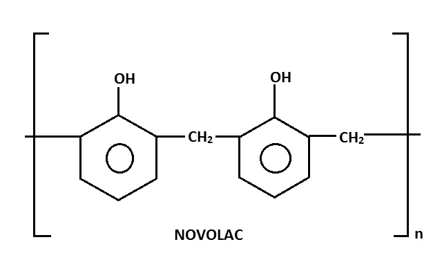 this is the reaction of formation of novolac